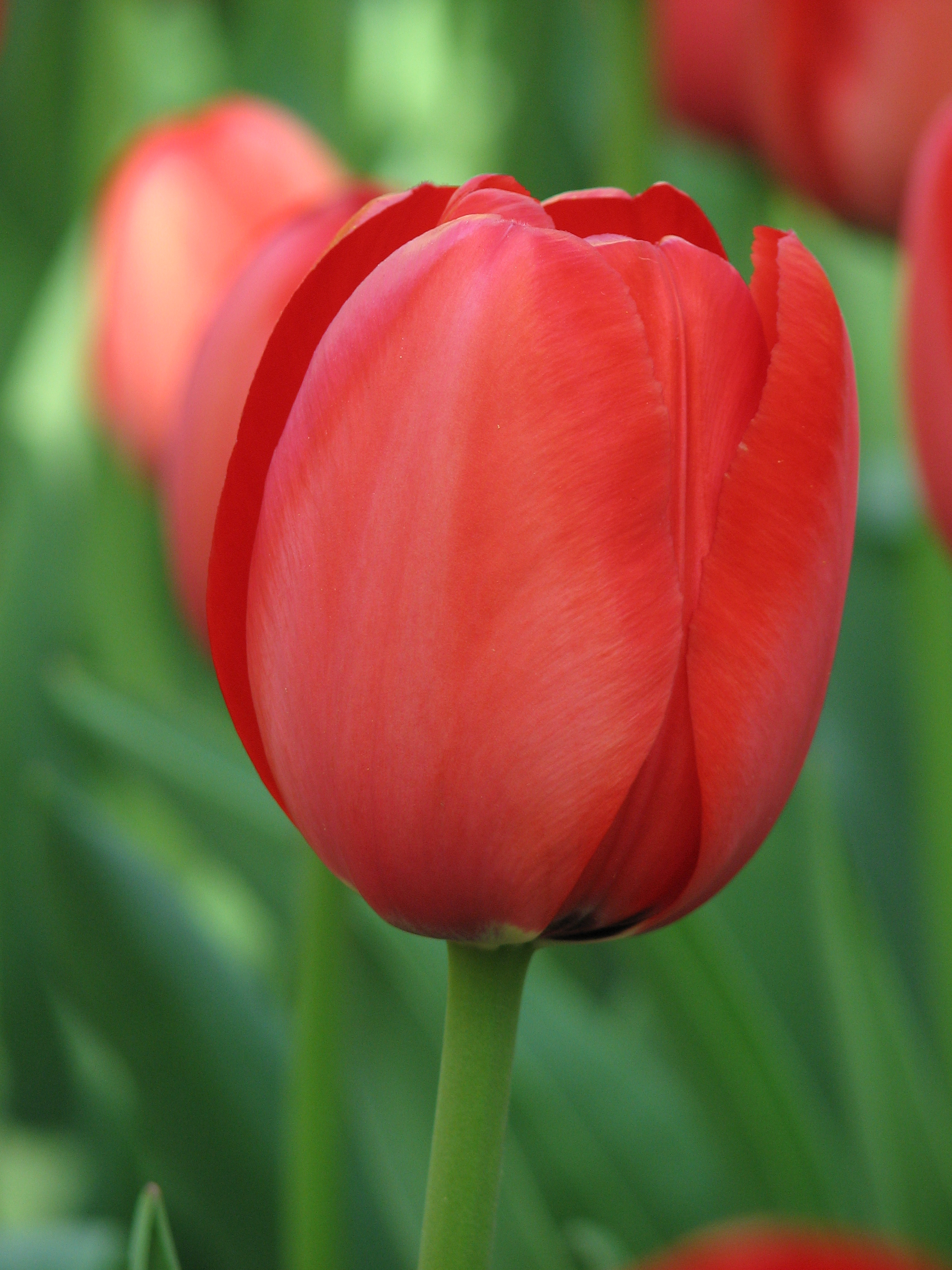 Tulips in the garden "Aptekarsky Ogorod" (Botanical garden of Moscow State University on Prospekt Mira). Tulip 'Apeldoorn'.